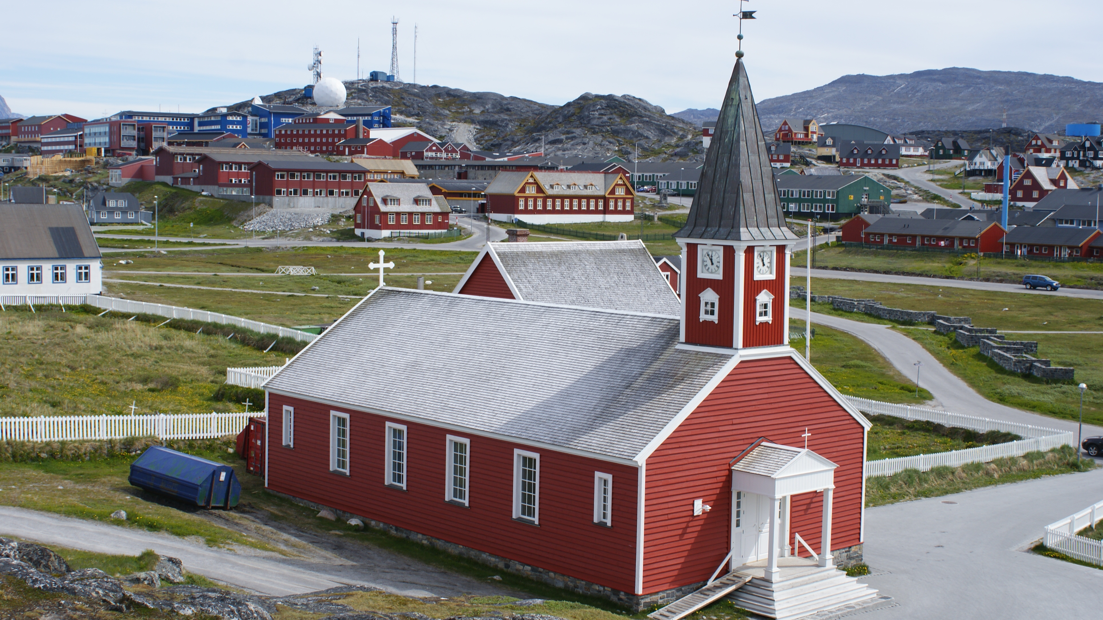 Annaassisitta Oqaluffia, the 1849 cathedral in Nuuk, the capital of Greenland.